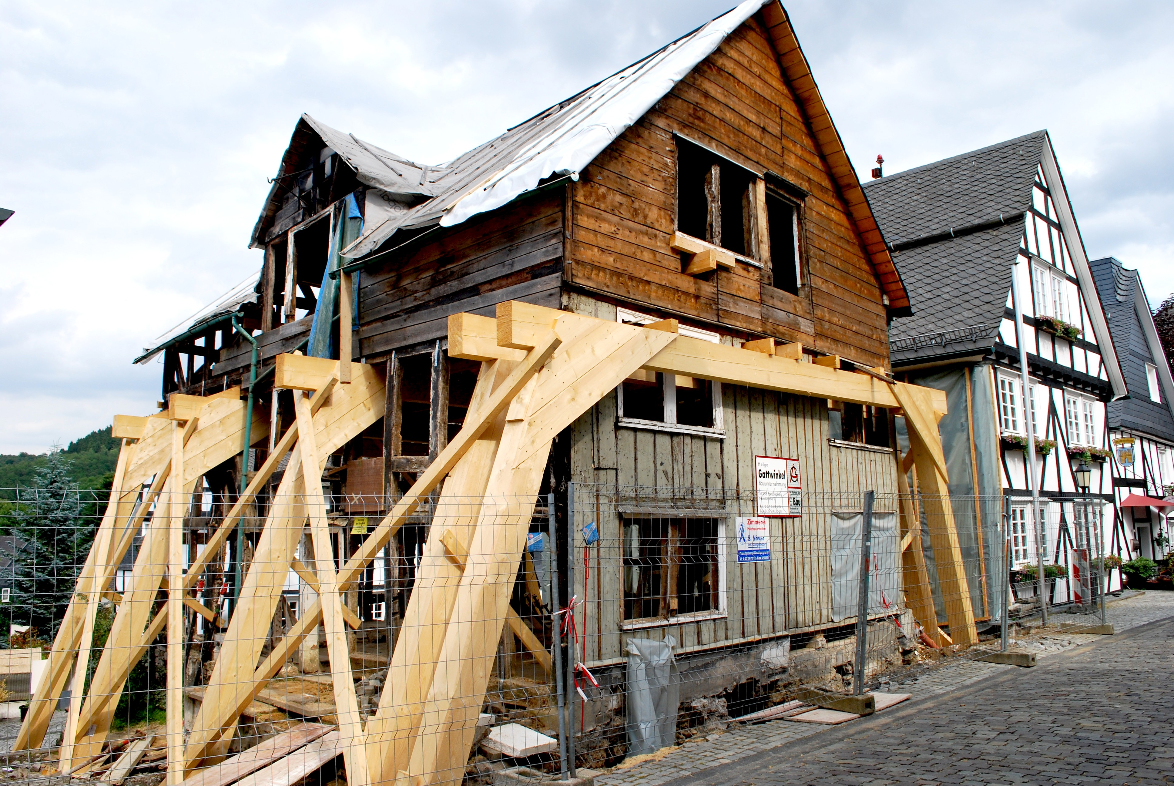 Old house in Freudenberg, Mittelstraße 8/10 (foreground), North Rhine-Westphalia, Germany. This image shows a heritage building in Germany, located in the North Rhine-Westphalian city Freudenberg (Siegerland) (no. 49).